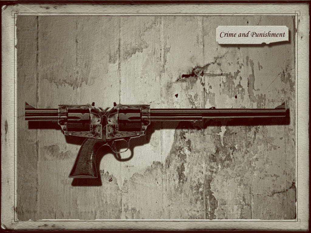 A symbolic pop-art composition freely based on a famous literature title. Dostoevsky's classic Crime and Punishment focuses on mental anguish and moral dilemmas, Raskolnikov strives to be an extraordinary being, who can murder without repercussions. Surhumorism series.